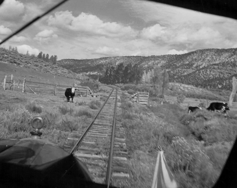 Photo from a 1951 ride on the Galloping Goose. The route passed through ranchlands, making cows on the track a real possibility.